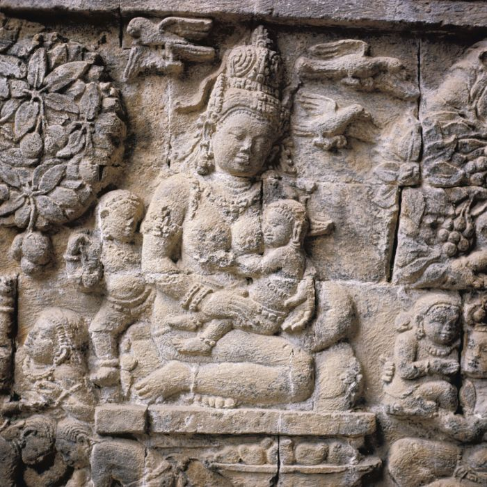 Relief at the Candi Mendut